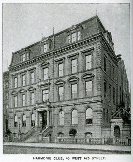 Harmonie Club building, built in 1867. Building gone, author definitely dead and published before 1923.